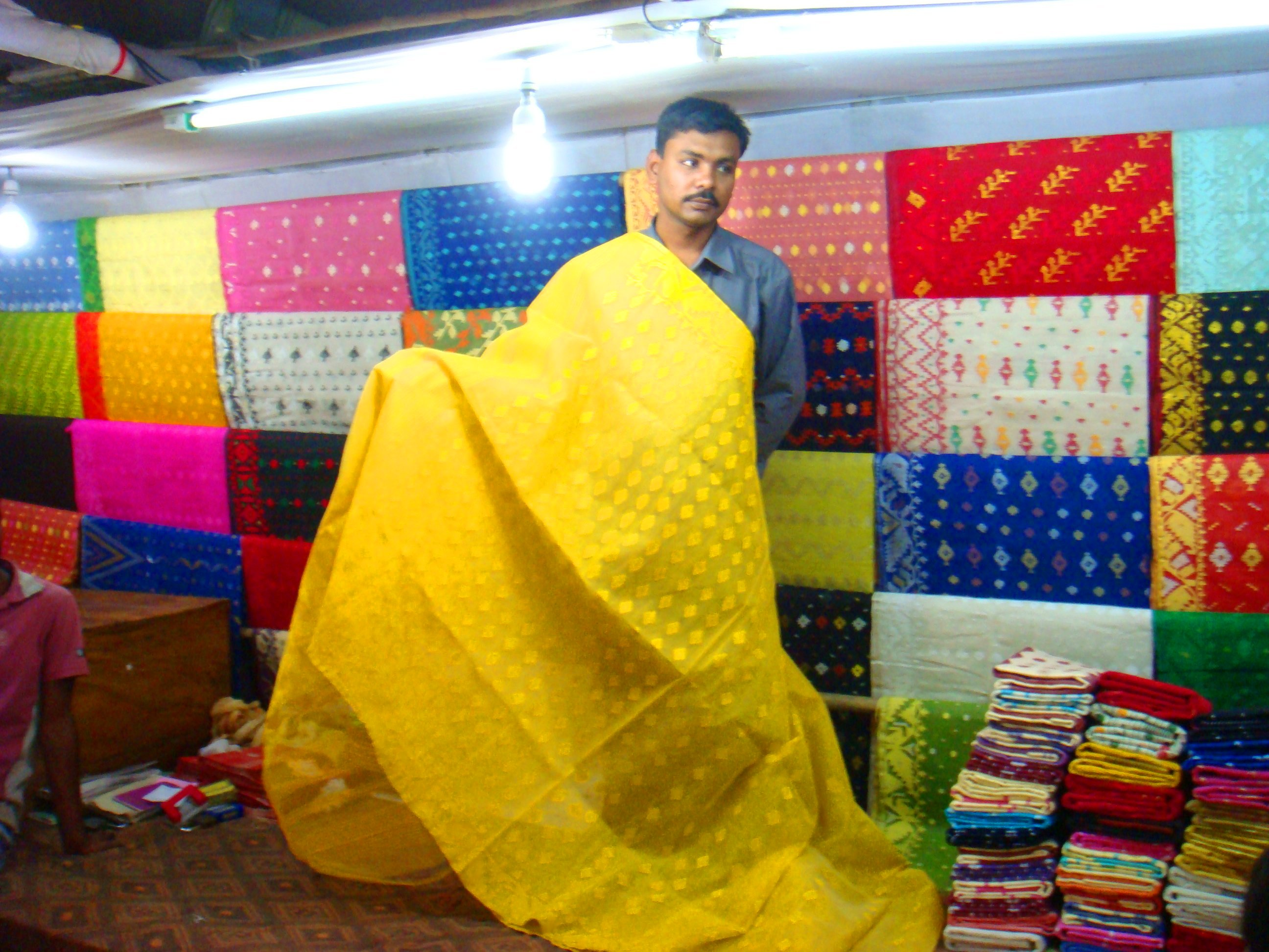 A salesman displaying a Jamdani Sari at Sonargaon, Narayanganj, Bangladesh.